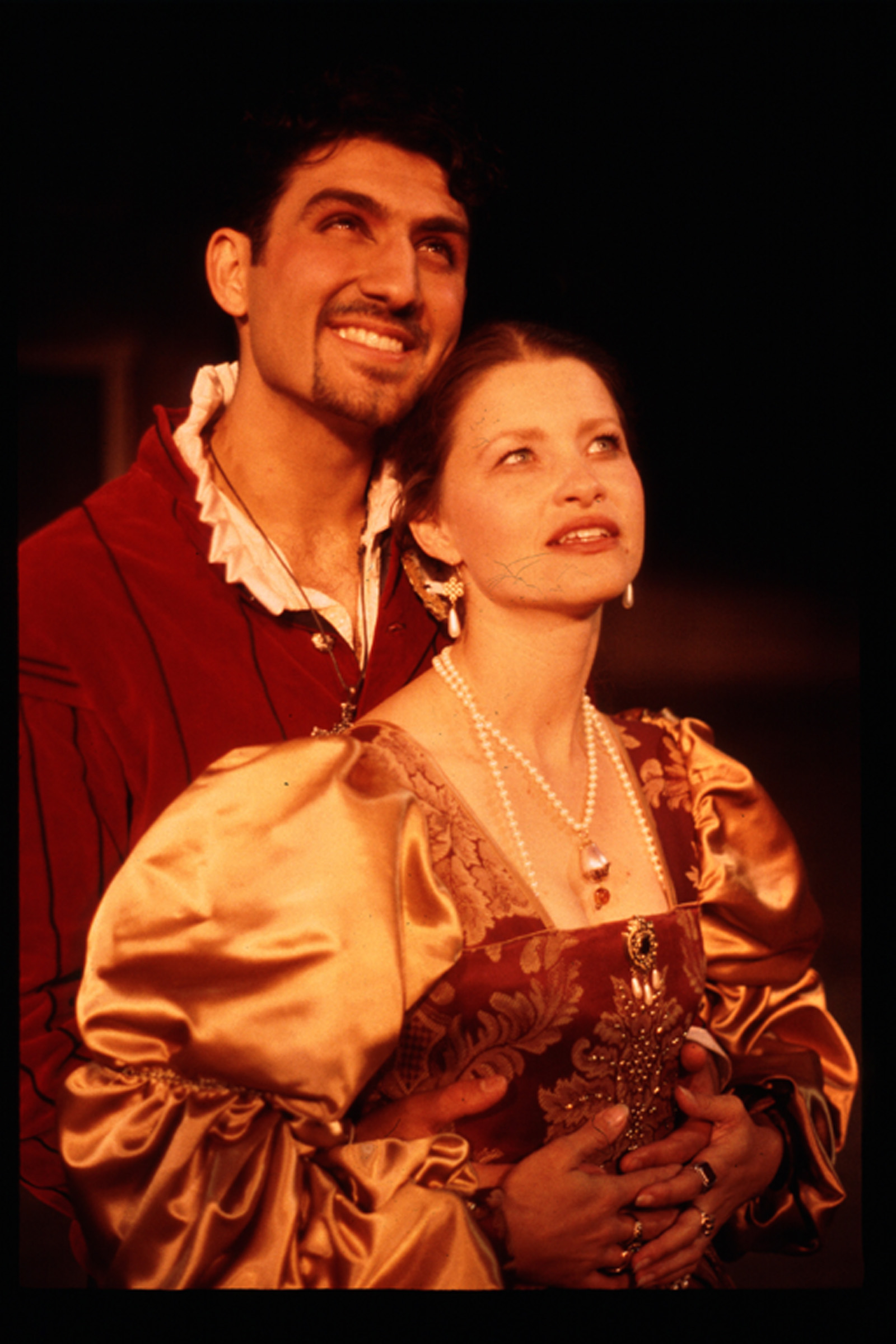 Bassanio (John Farmanesh-Bocca) and Portia (Julie Hughett) from the Pacific Repertory Theatre production of "The Merchant of Venice", staged at the Outdoor Forest Theater in Carmel, CA in 1995.